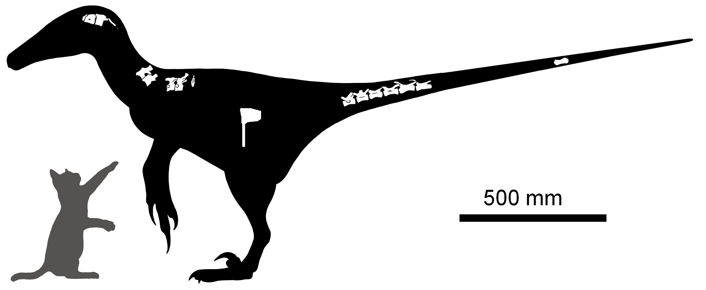 Skeletal reconstruction of Yurgovuchia doellingi, with anachronistic house cat to show its size.